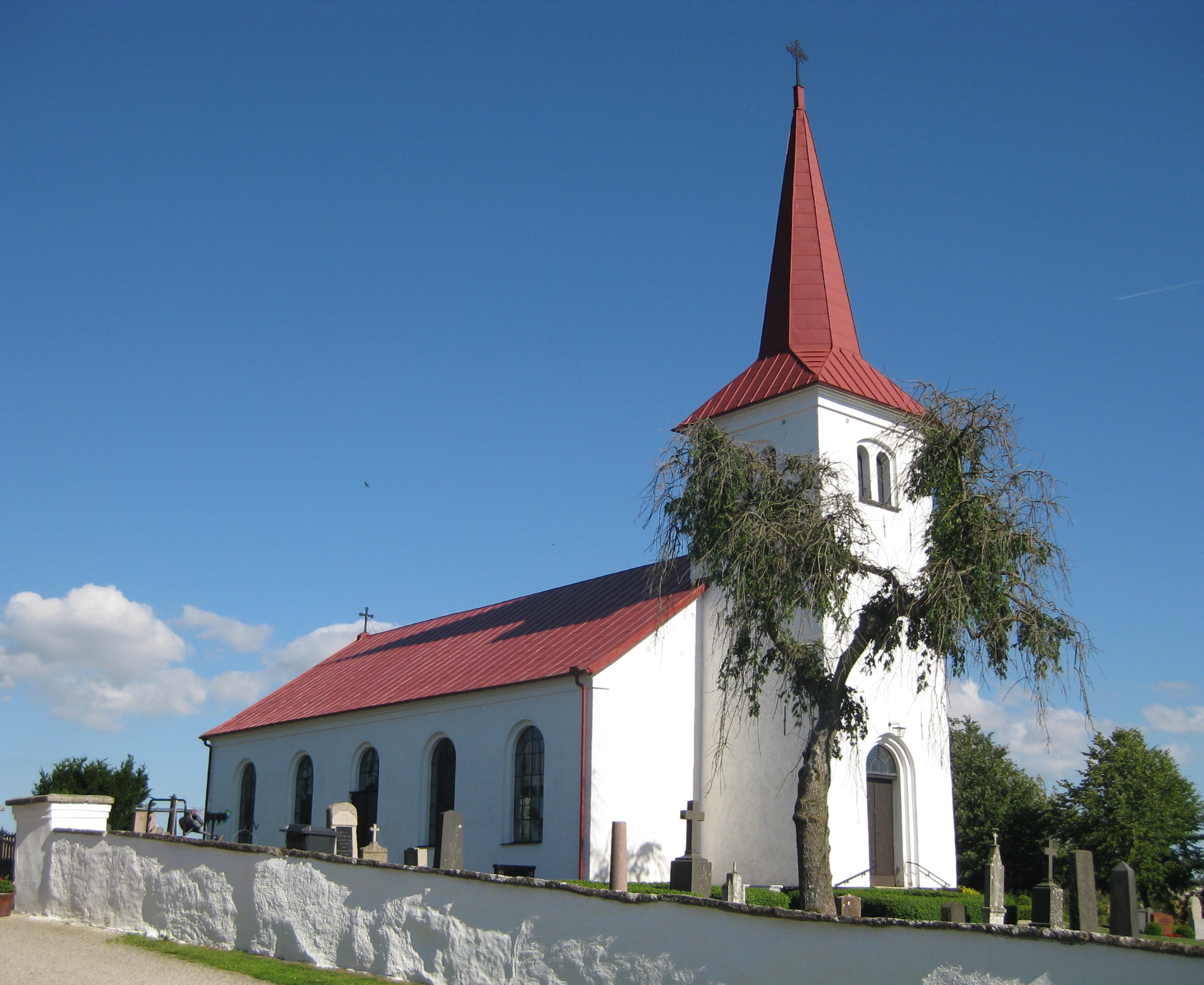 The church in Spjutstorp, Skåne, Sweden